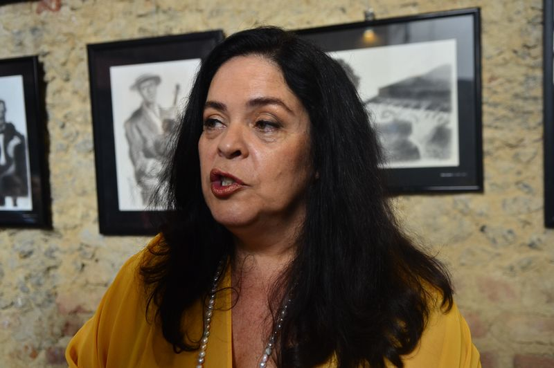 Luciana Rabello at the inauguration of Casa do Choro, at Rio de Janeiro, Brazil.